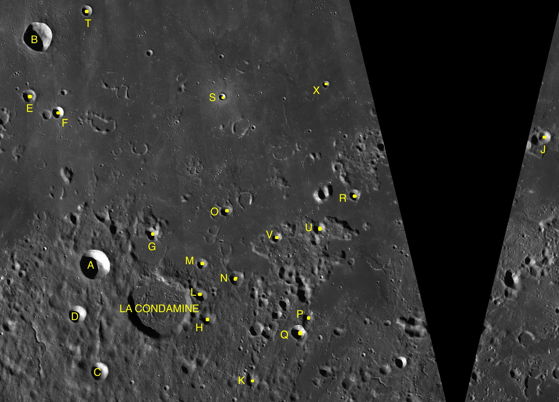 Parts of the charts LAC-11, LAC-12 used for the presentation